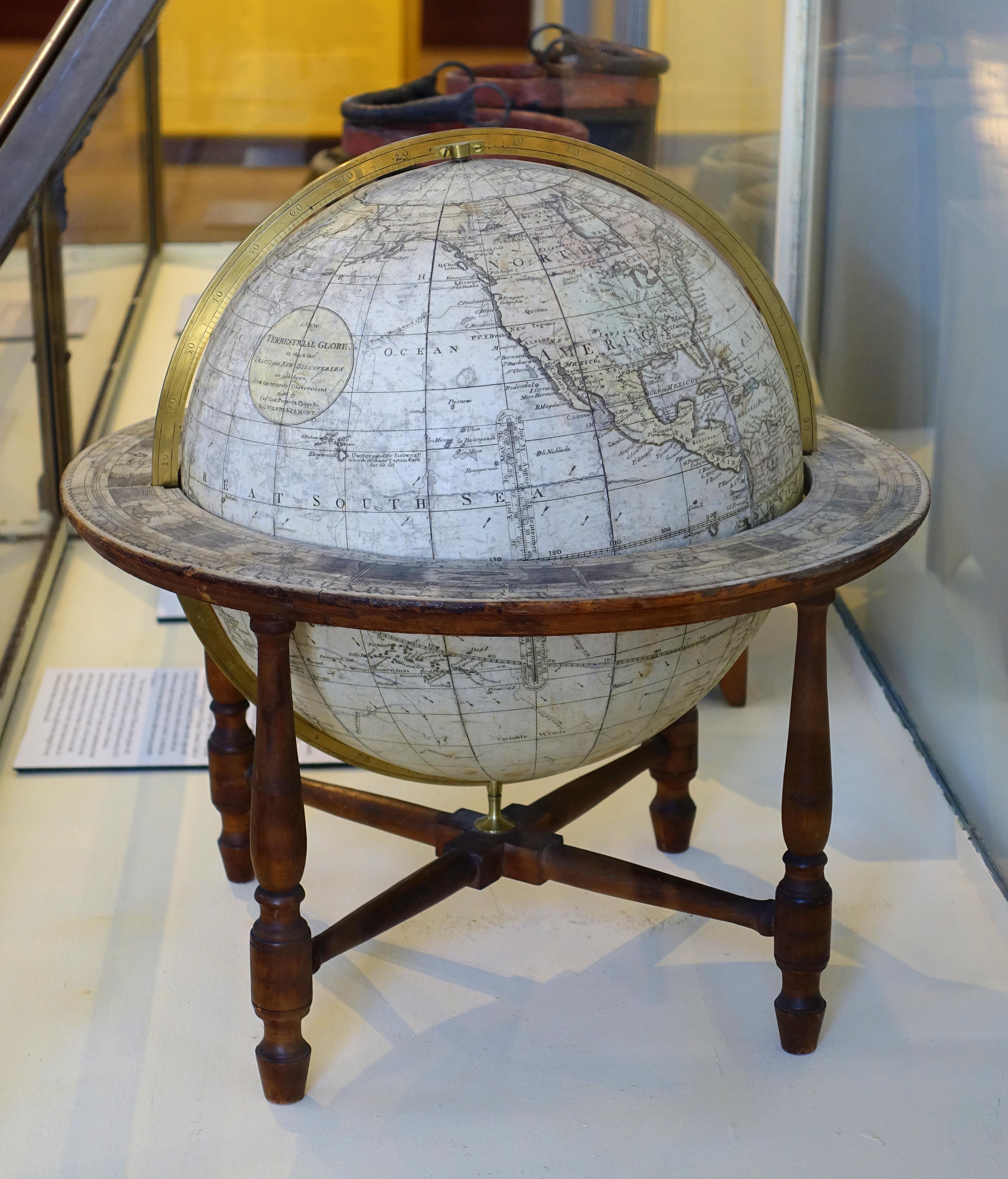 Exhibit in the Bennington Museum - Bennington, Vermont, USA. This work is in the public domain because the artist died more than 70 years ago.